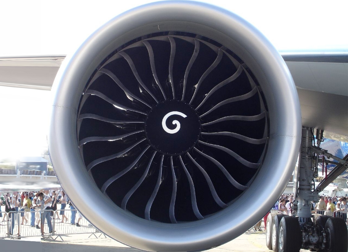 The huge GE-90 mounted to a B777-200LR. Salon du Bourget 2005.